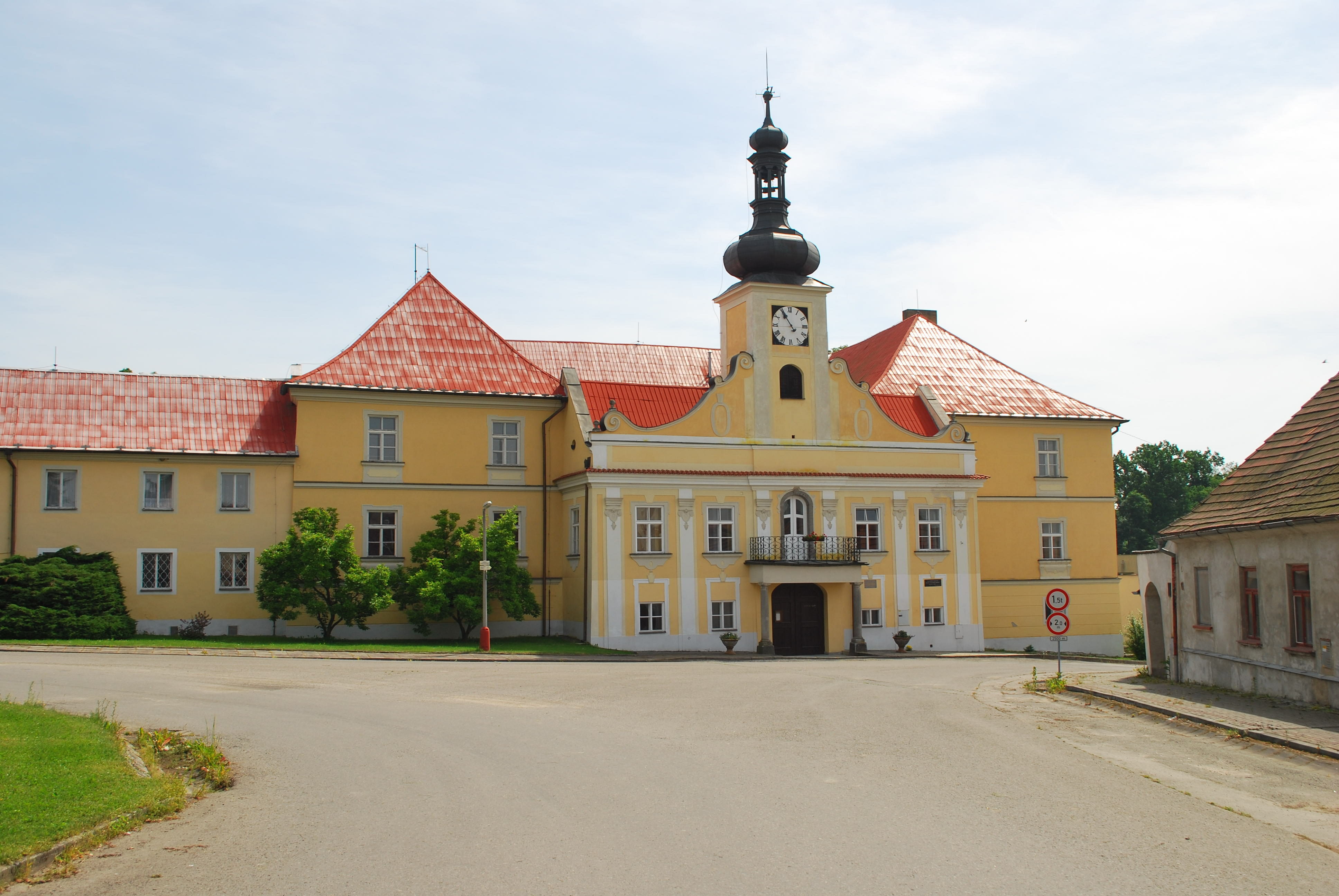 Stádlec, castle